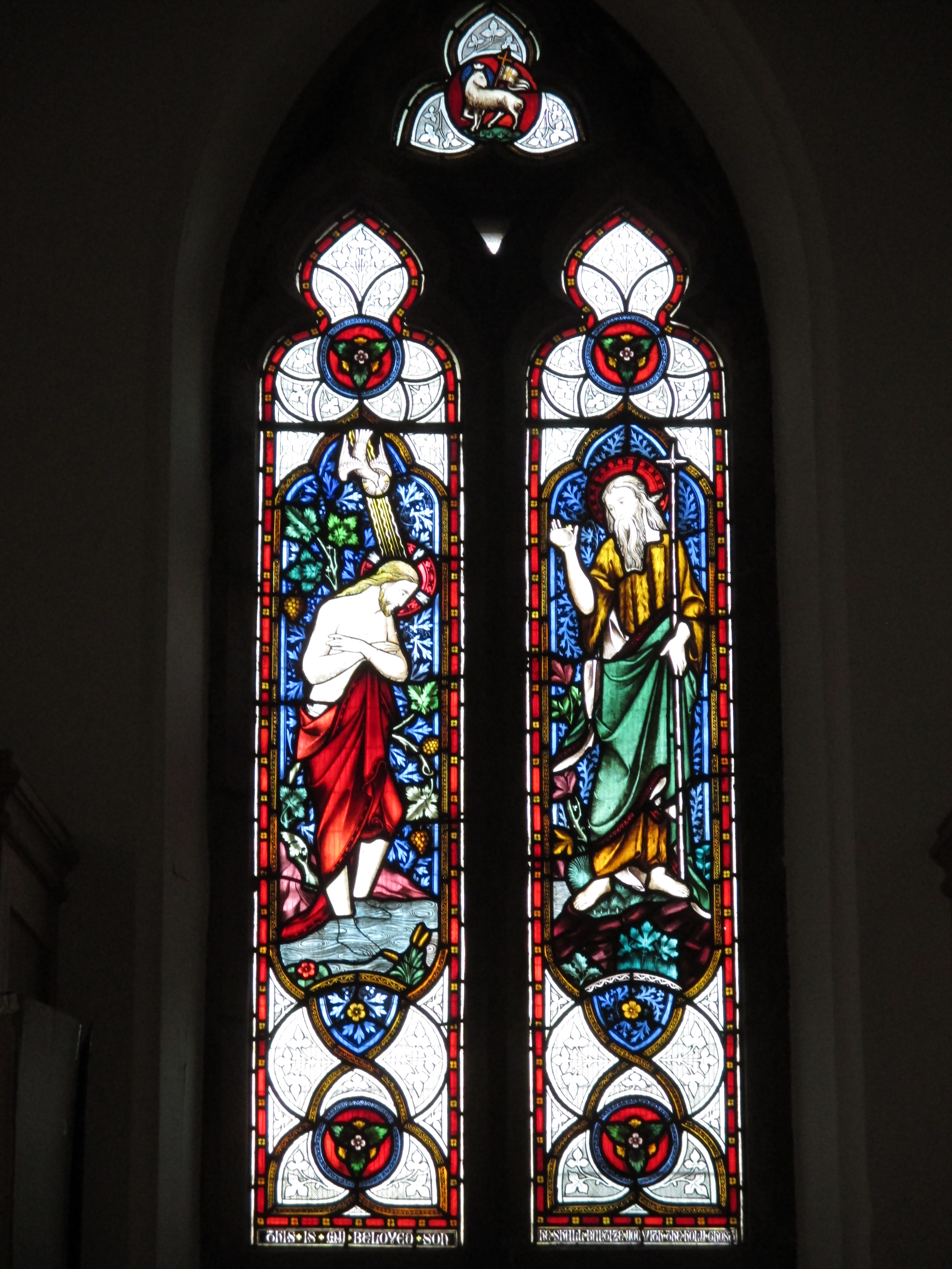 Stained glass window in the west wall of the baptistry, Holy Trinity Church, Hurstpierpoint, West Sussex. Produced by Hardman & Co in the 1860s.